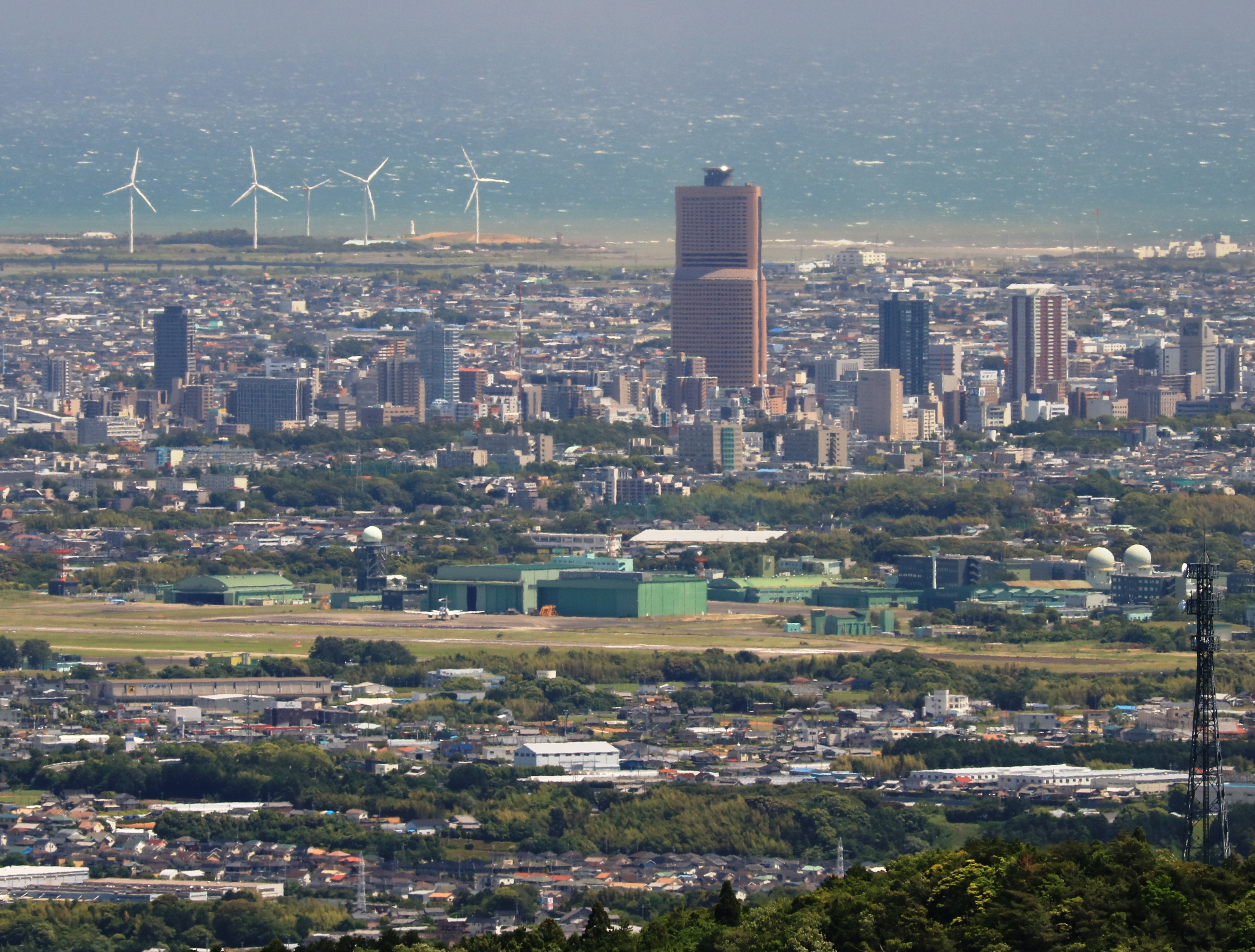 Act Tower seen from Mount Tonmaku in Hamamatsu, Shiauoka Prefecture, Japan.